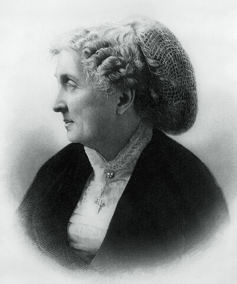 Paulina W. Davis / photo. by Manchester Bros. ; engraved by J.C. Buttre, N.Y.